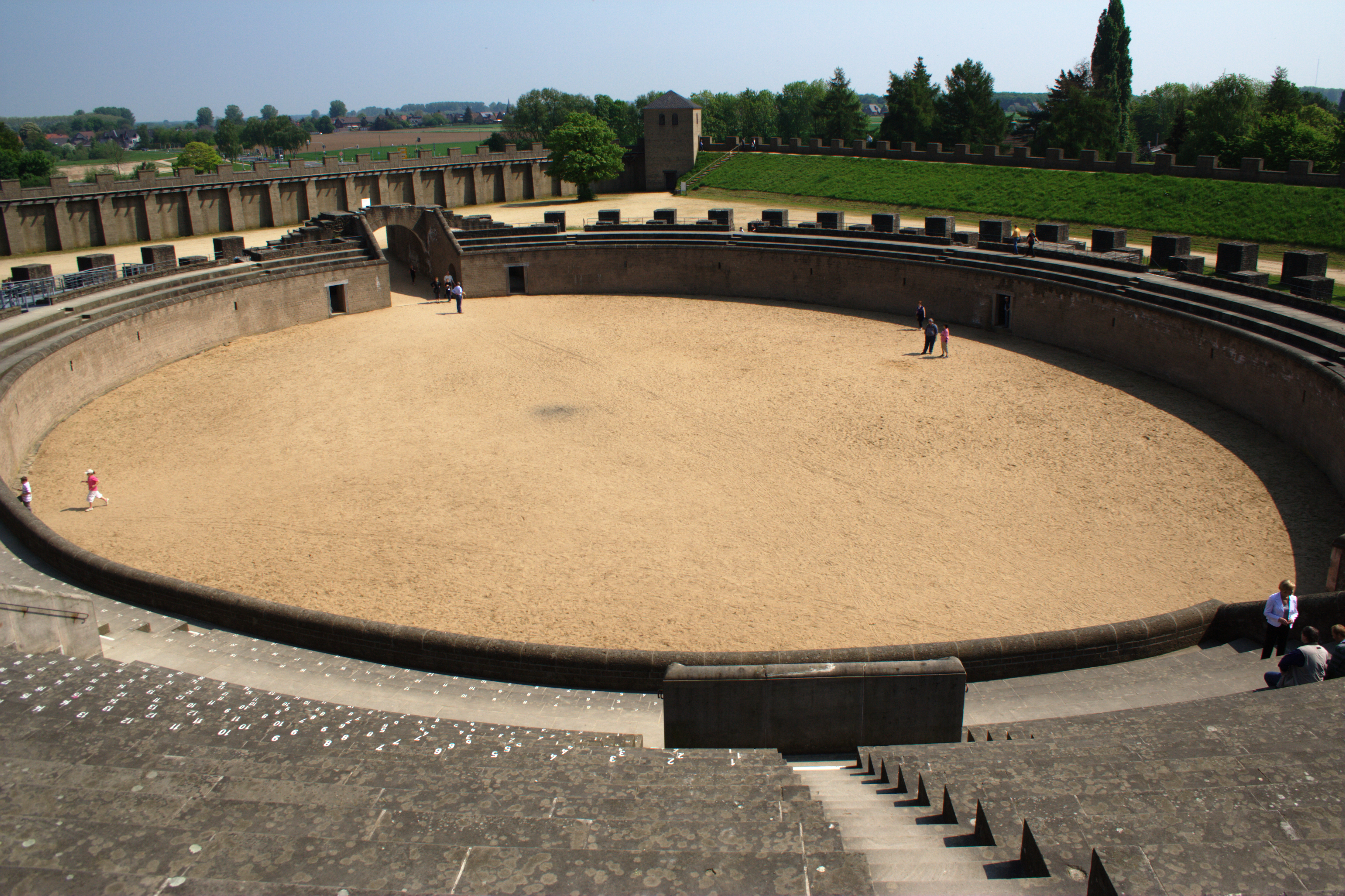 The reconstructed amphitheater in the archaeological park in Xanten (Germany, NRW).